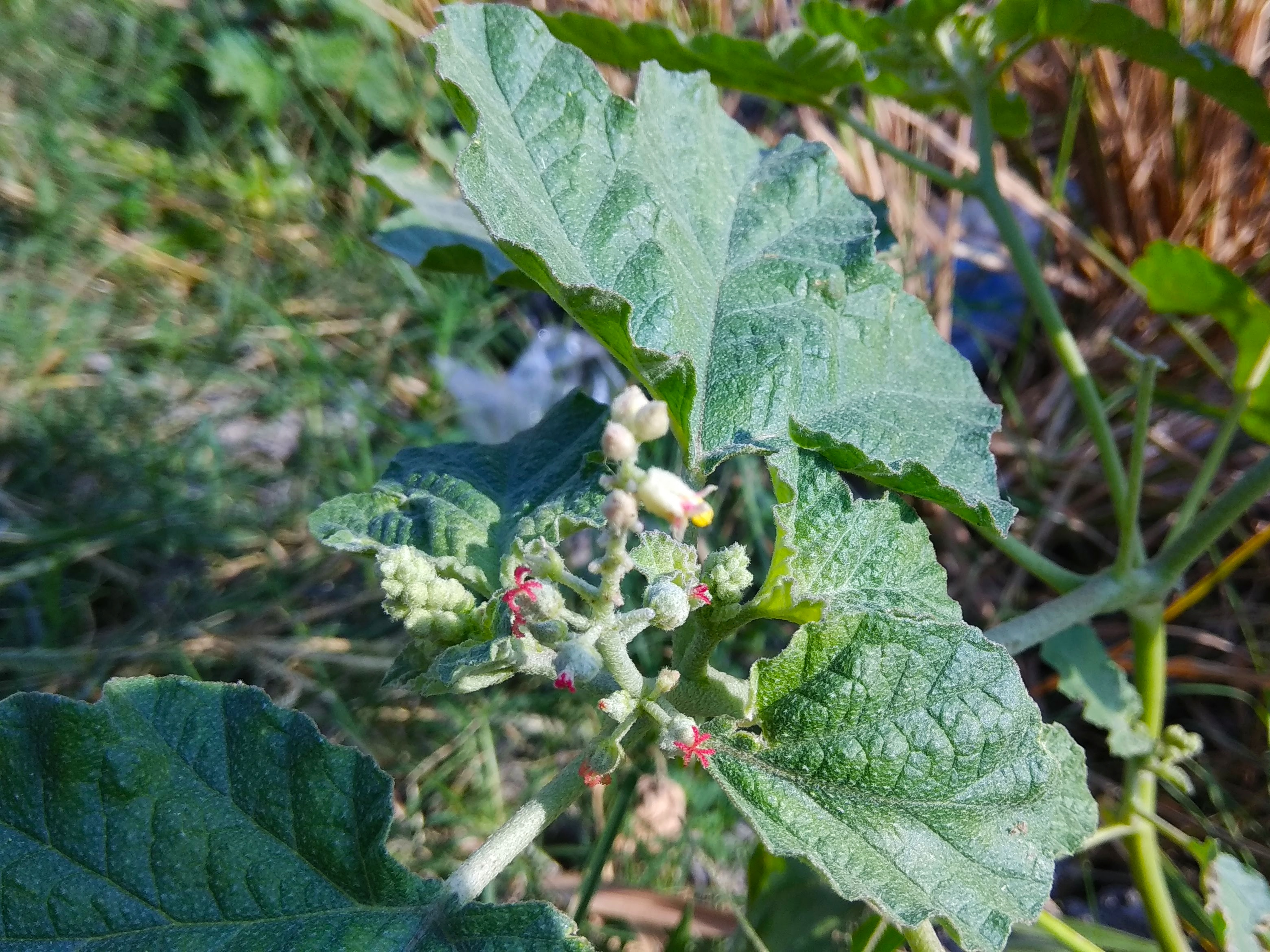 chrozophora rottleri